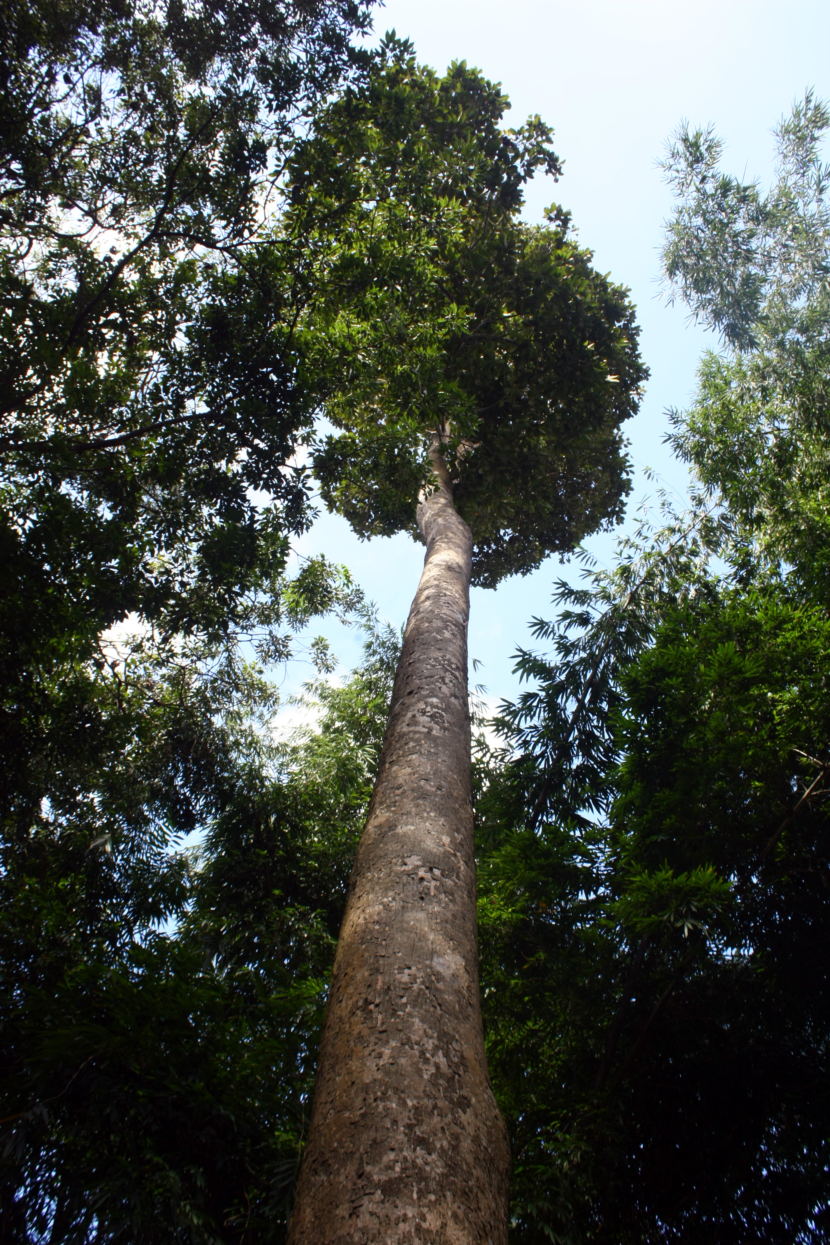 Dipterocarpus zeylanicus, Peradeniya Botanical Gardens, Kandy, Sri Lanka